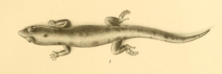 Illustration of Sphaerodactylus vincenti festus specimen from Fort de France, Martinique. Identified as S. festus. Barbour, Thomas (1921). "Sphaerodactylus." Mem. Mus. Comp. Zool. 47:3, Pl. 3, Fig. 1.